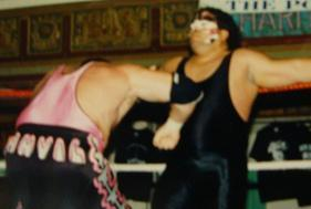 Jim Neidhart vs Falcon Coperis UCW